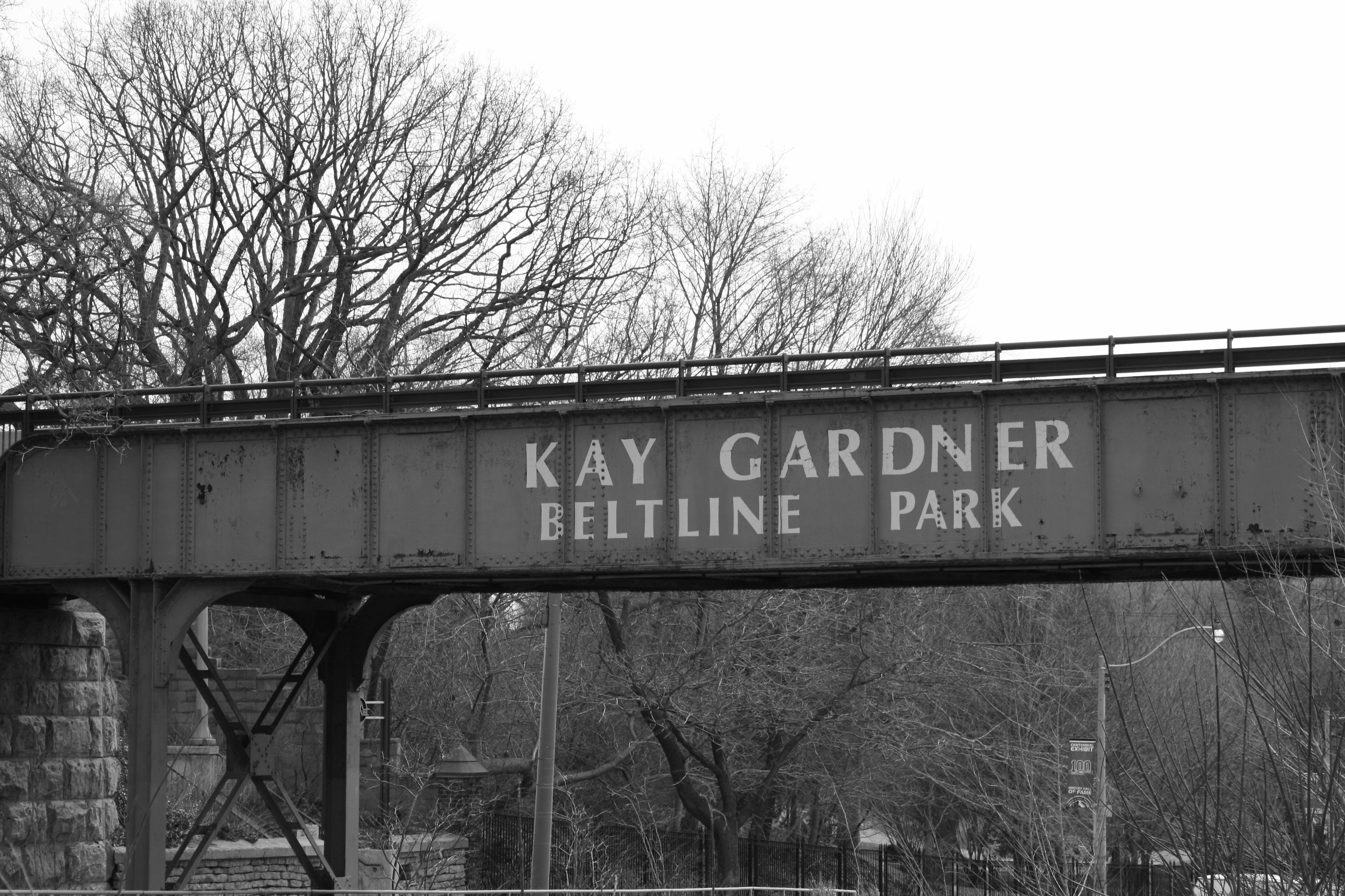 The Beltline Bridge, formerly a railway bridge, now serving as a pedestrian overpass over Yonge Street. Toronto, Canada.